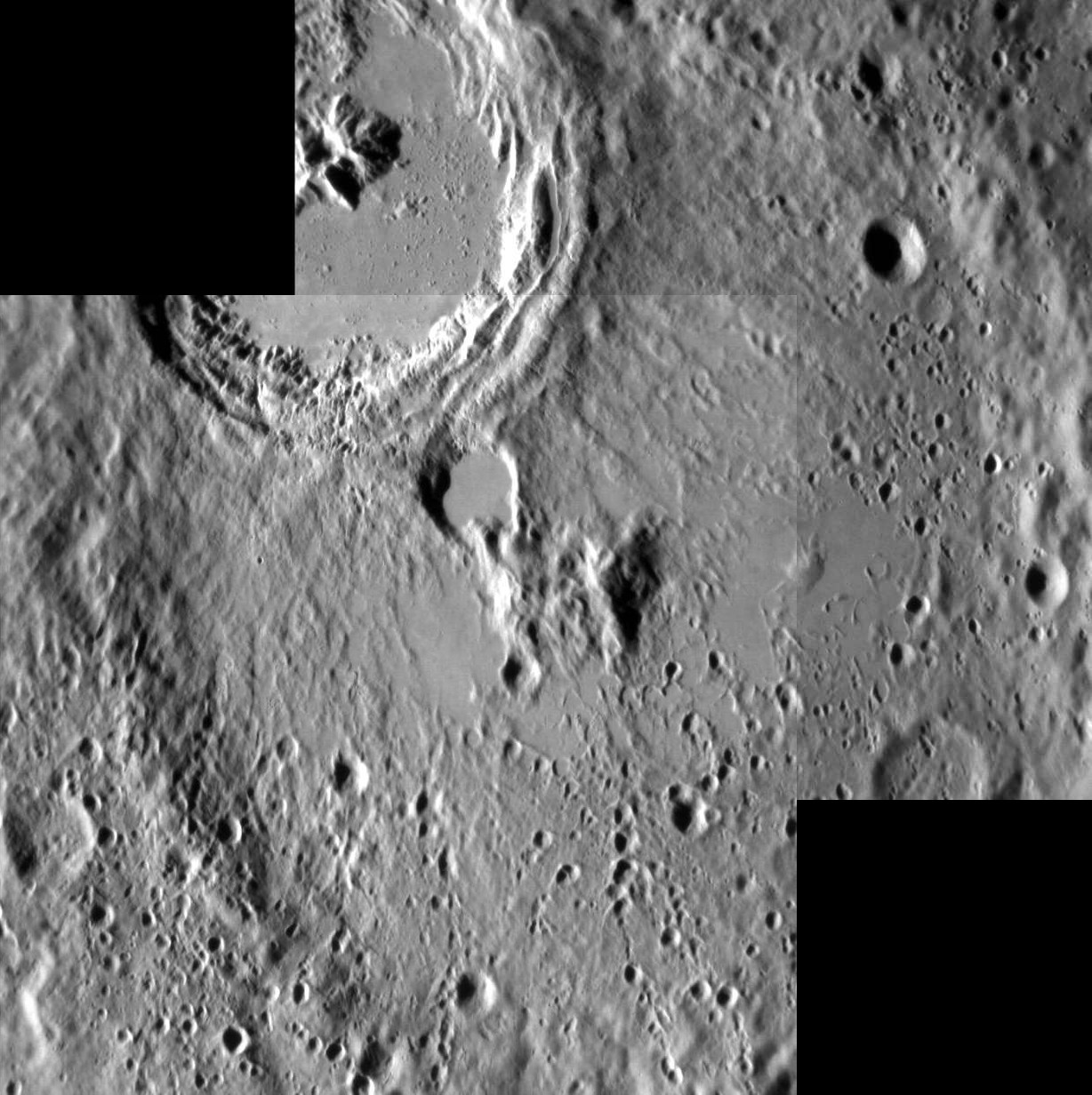 Mosaic showing most of Murasaki crater on Mercury, with part of Kuiper crater in upper left. MESSENGER Narrow Angle Camera images. Emission Angle: 31.5 Incidence Angle: 70.1 Latitude: -12 Longitude: 330 Phase Angle: 101.6